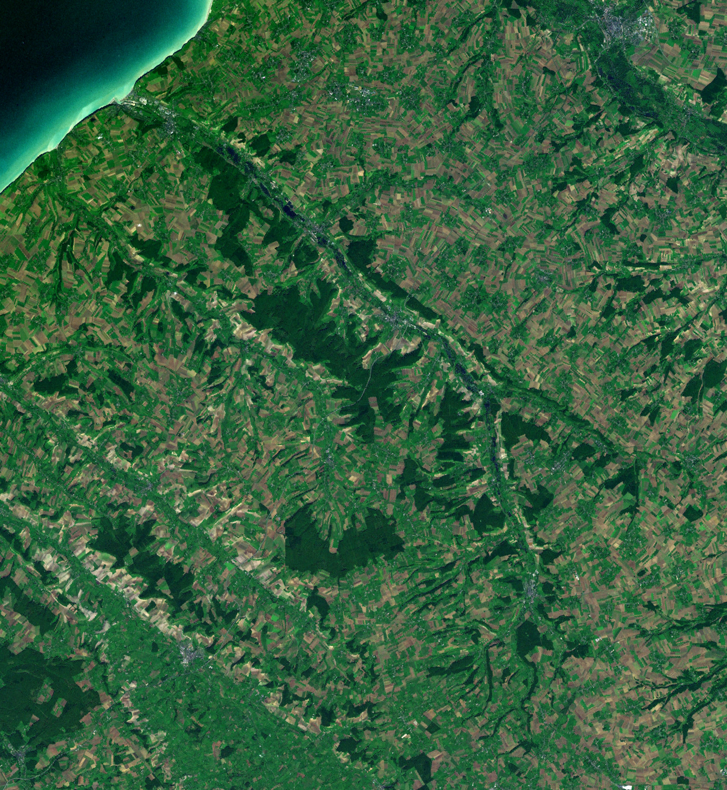 Photographs of the Bresle river, between Picardie and Haute-Normandie, France.